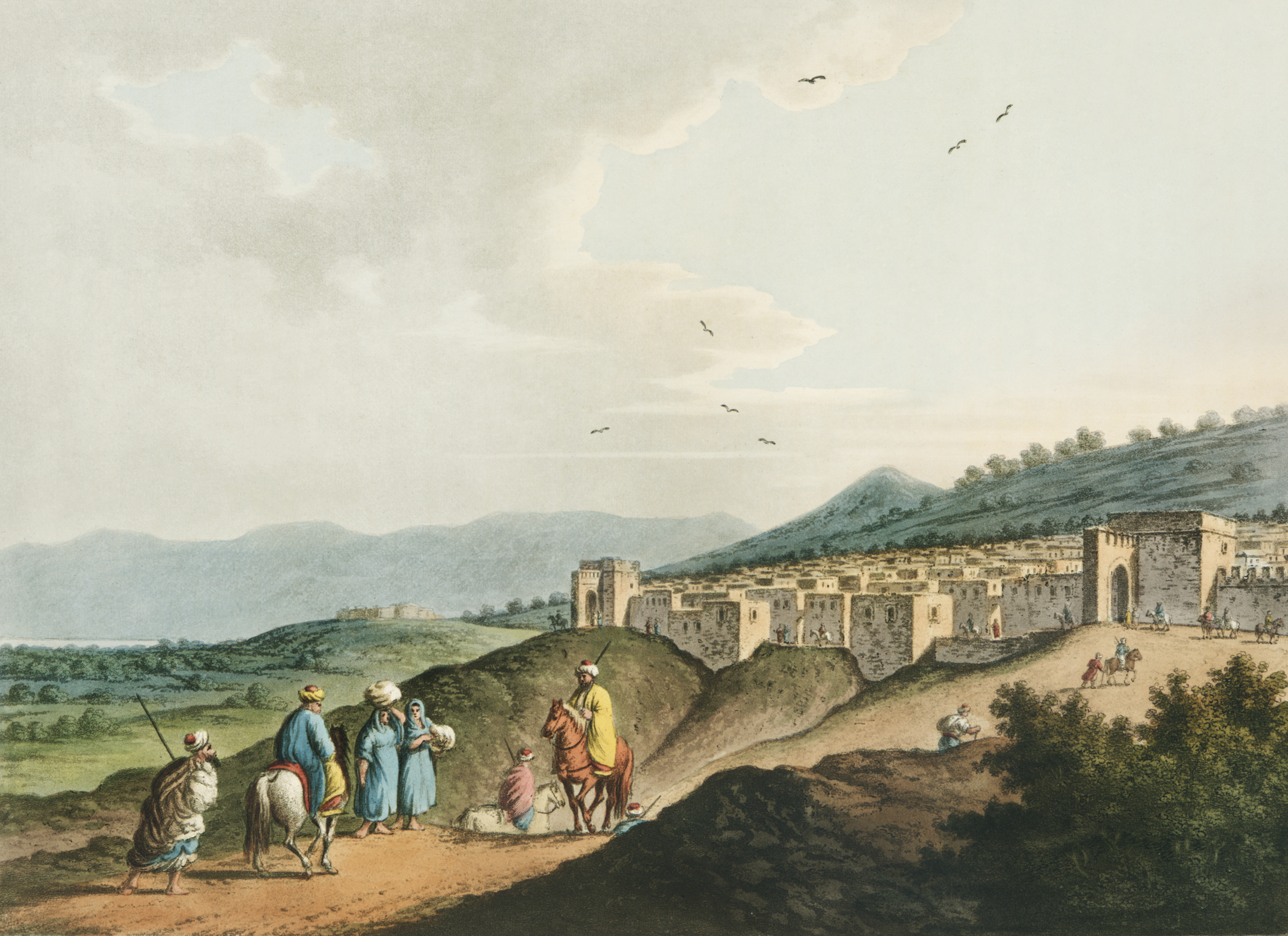 City of Bethlehem, in Palestine from Views in the Ottoman Dominions, in Europe, in Asia, and some of the Mediterranean islands (1810) illustrated by Luigi Mayer (1755-1803).